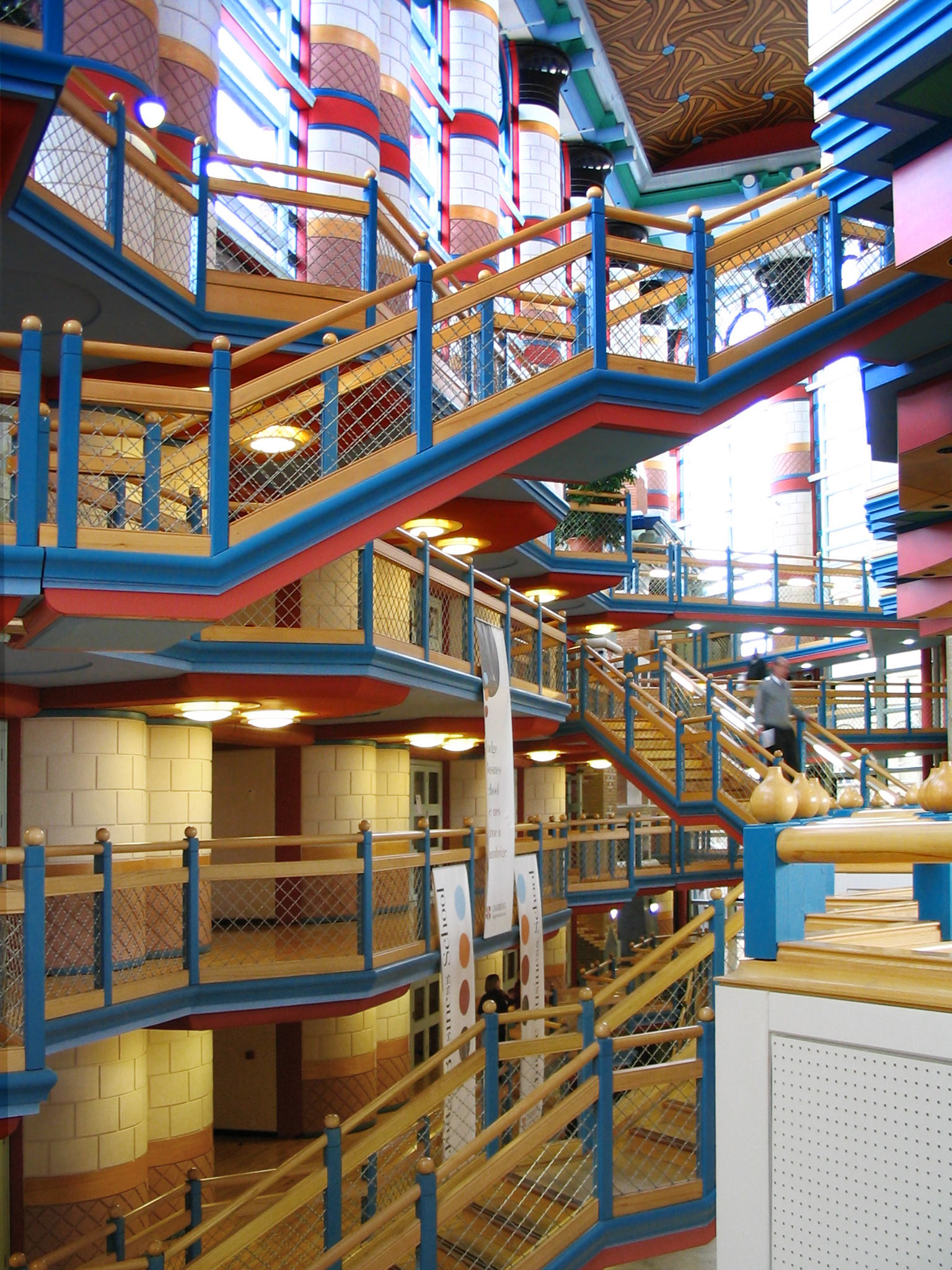 Interior of the University of Cambridge Judge Business School.